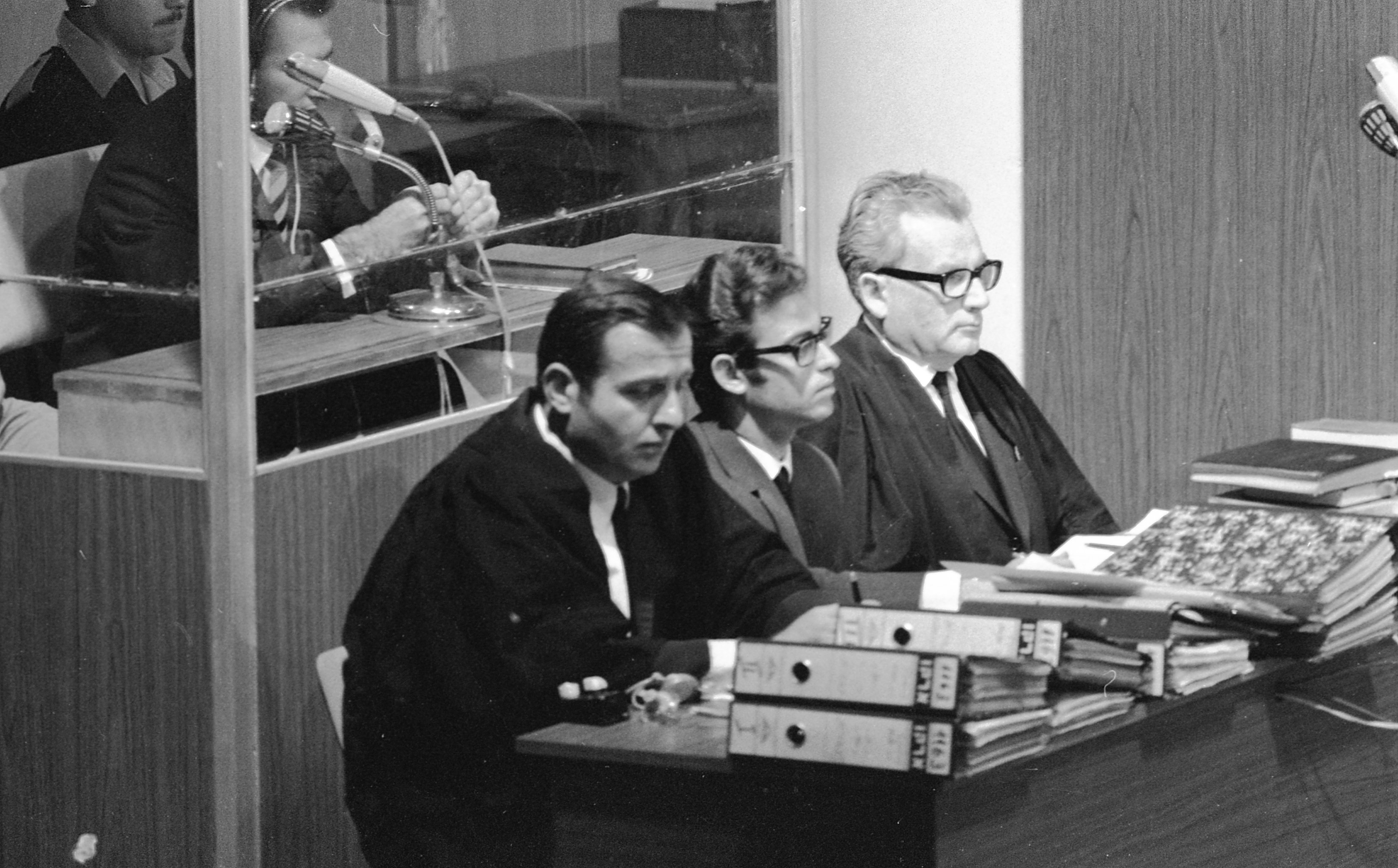 Denis Michael Rohan trial.